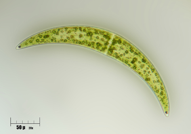 A desmiid (unicellular alga) of the genus Closterium